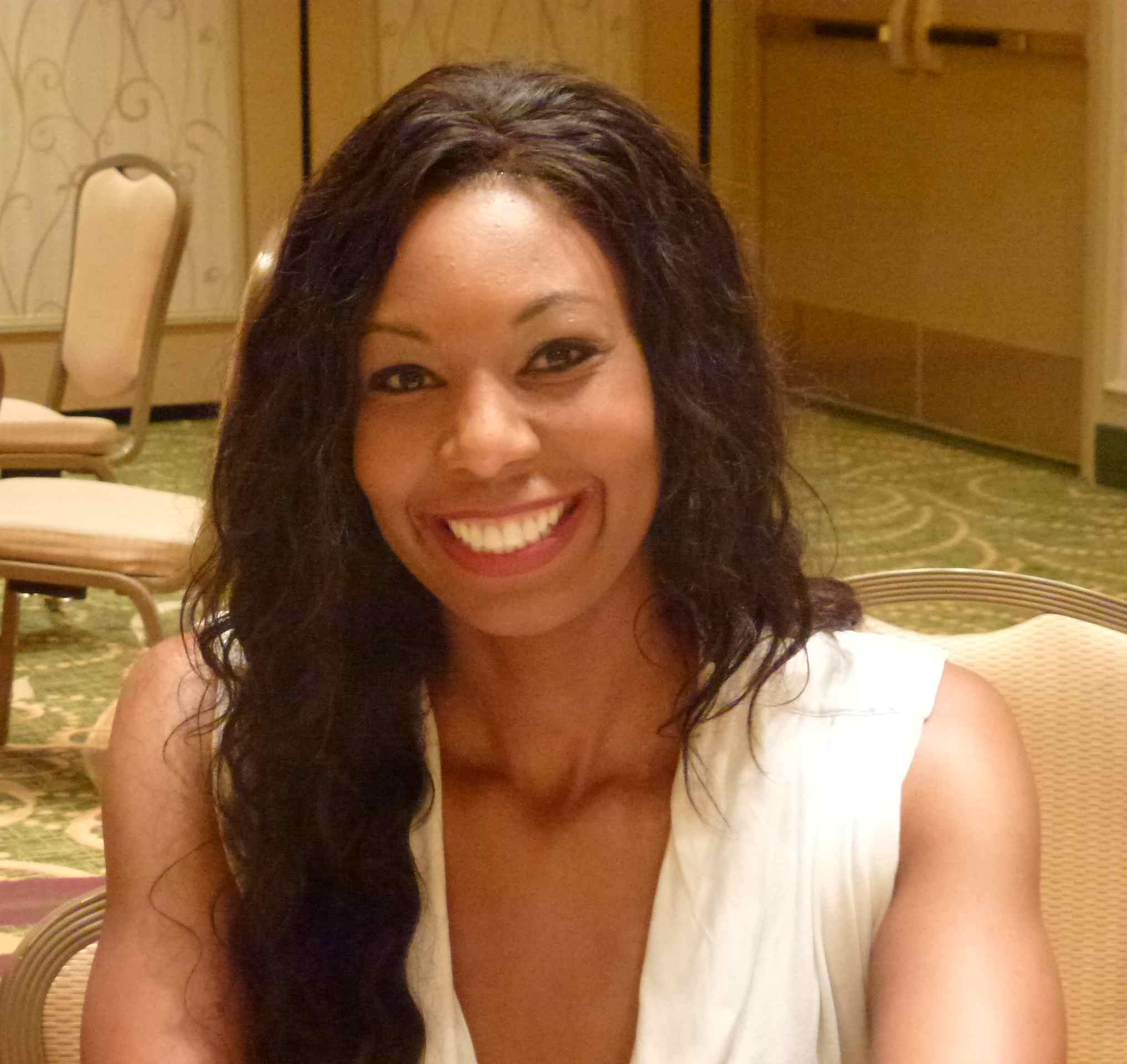 Chantelle Anderson retired collegiate and professional basketball player, taken at the 2013 WBCA Convention in New Orleans.